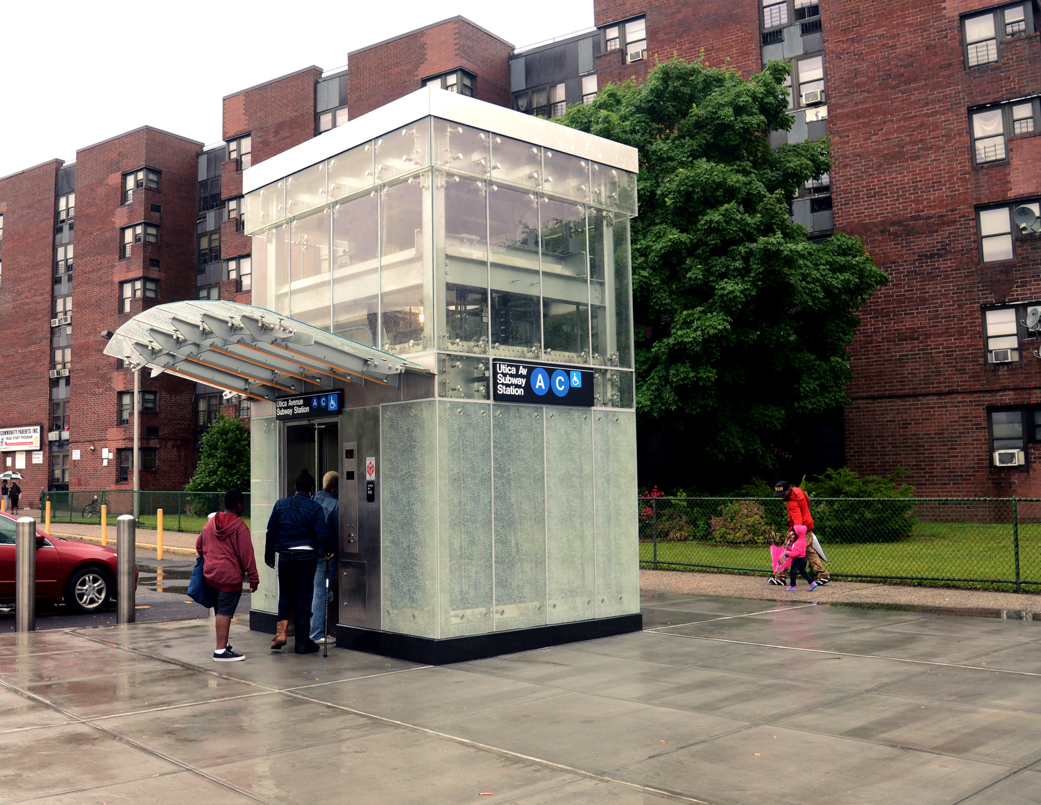 A ribbon-cutting ceremony was held Fri., June 13, 2014 at the Utica Av. Station on the A/C lines to officially open three elevators that make the station more accessible. Photo: Marc A. Hermann / MTA New York City Transit